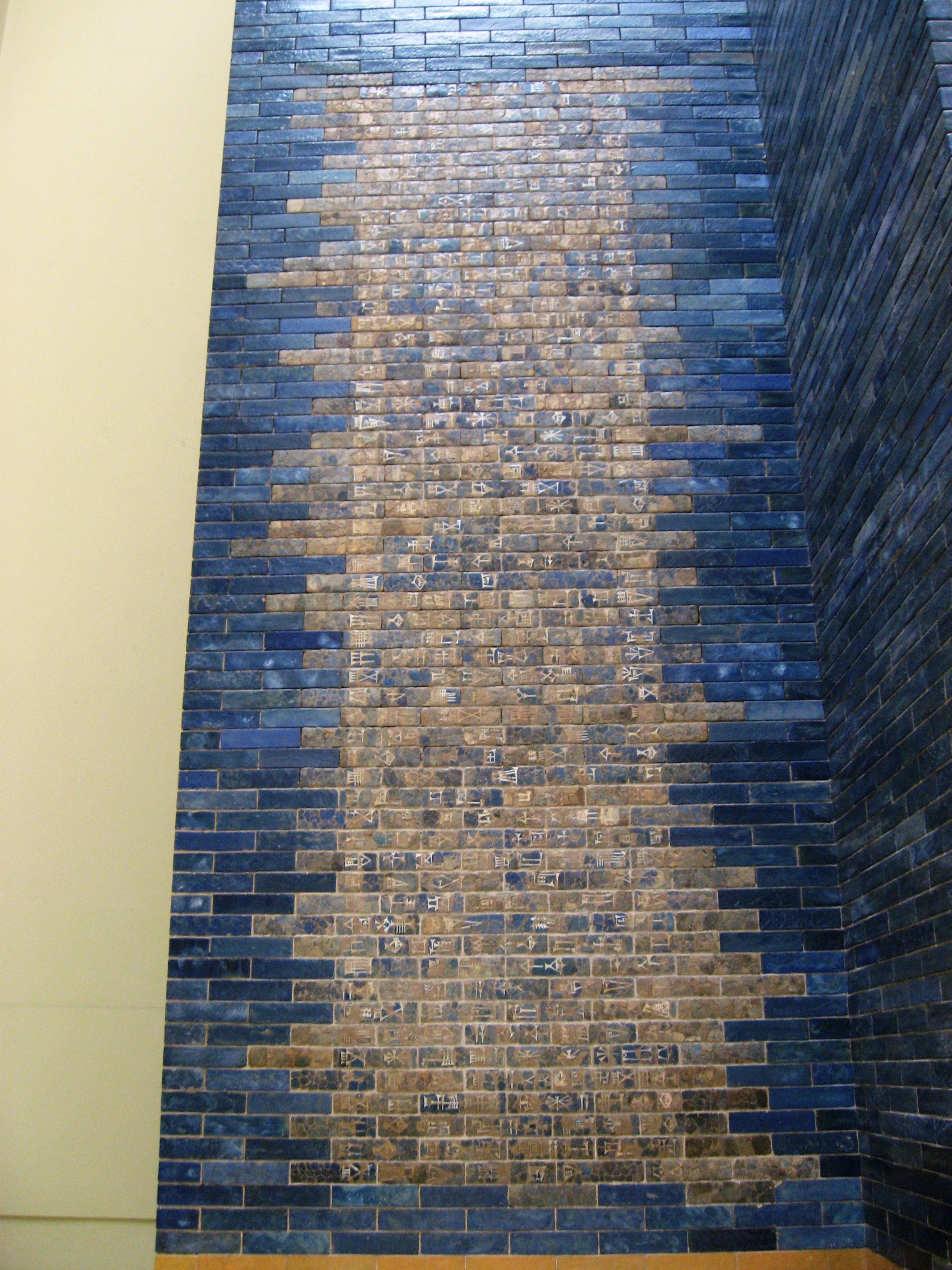 Building Inscription of King Nebuchadnezzar II, 604-562 BC. During the excavations of Babylon, in the immediate vicinity of the Ishtar Gate, numerous fragments of bricks with remains of white-glazed cuneiform characters have been found. These fragments obviously belonged to a building inscription of Nebuchadnezzar II at the gate. Their exact location is unknown but there is no doubt that the text refers to the construction of the gate. The text was restored by comparison with another complete inscription on a lime stone block and gives three excerpts of this main inscription of the king. Abridged excerpt: "I (Nebuchadnezzar) laid the foundation of the gates down to the ground water level and had them built out of pure blue stone. Upon the walls in the inner room of the gate are bulls and dragons and thus I magnificently adorned them with luxurious splendour for all mankind to behold in awe."